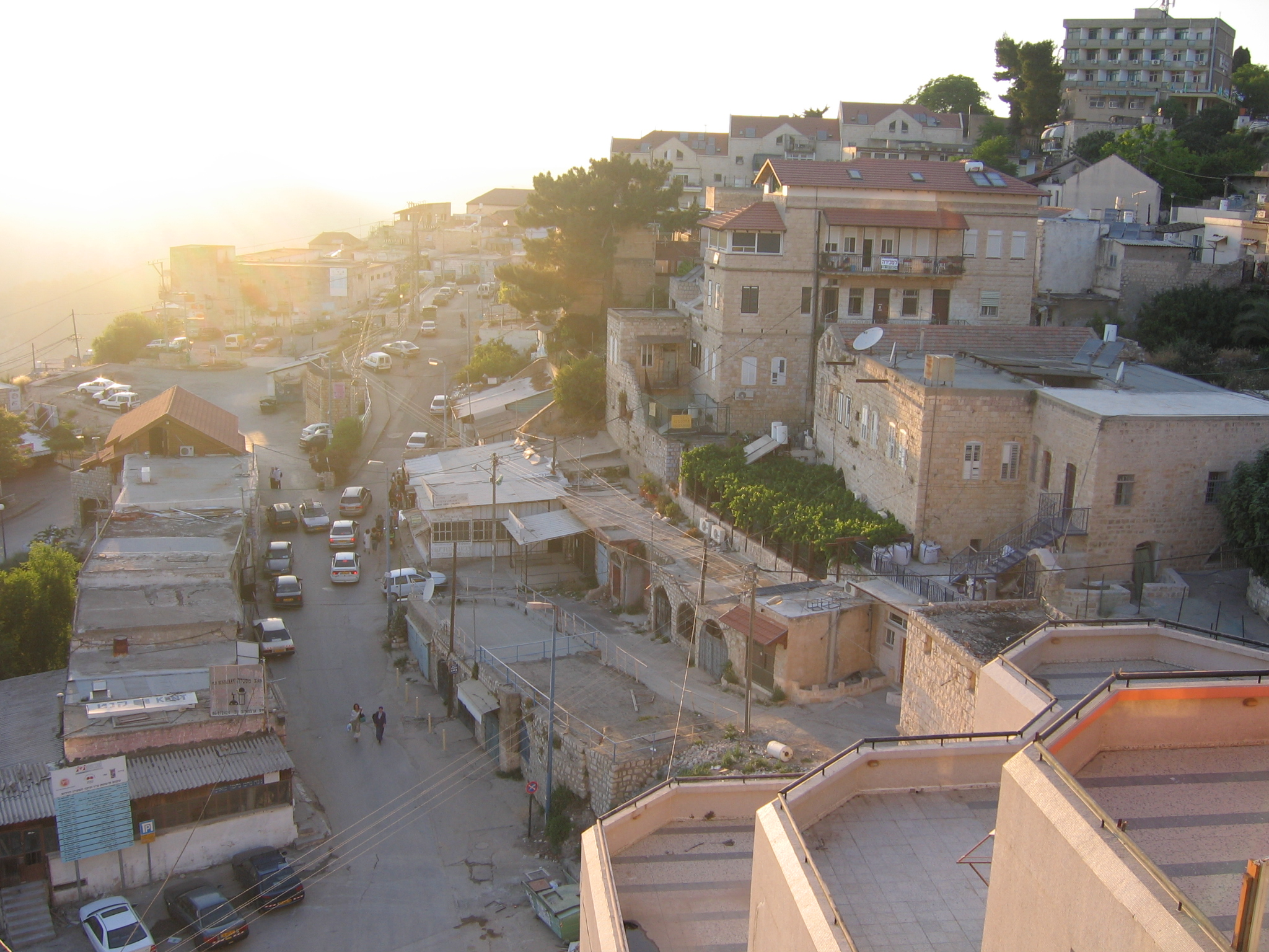 Safed (צפת in Hebrew), a city in northern Israel. Taken by Beny Shlevich, on May 29th, 2006.